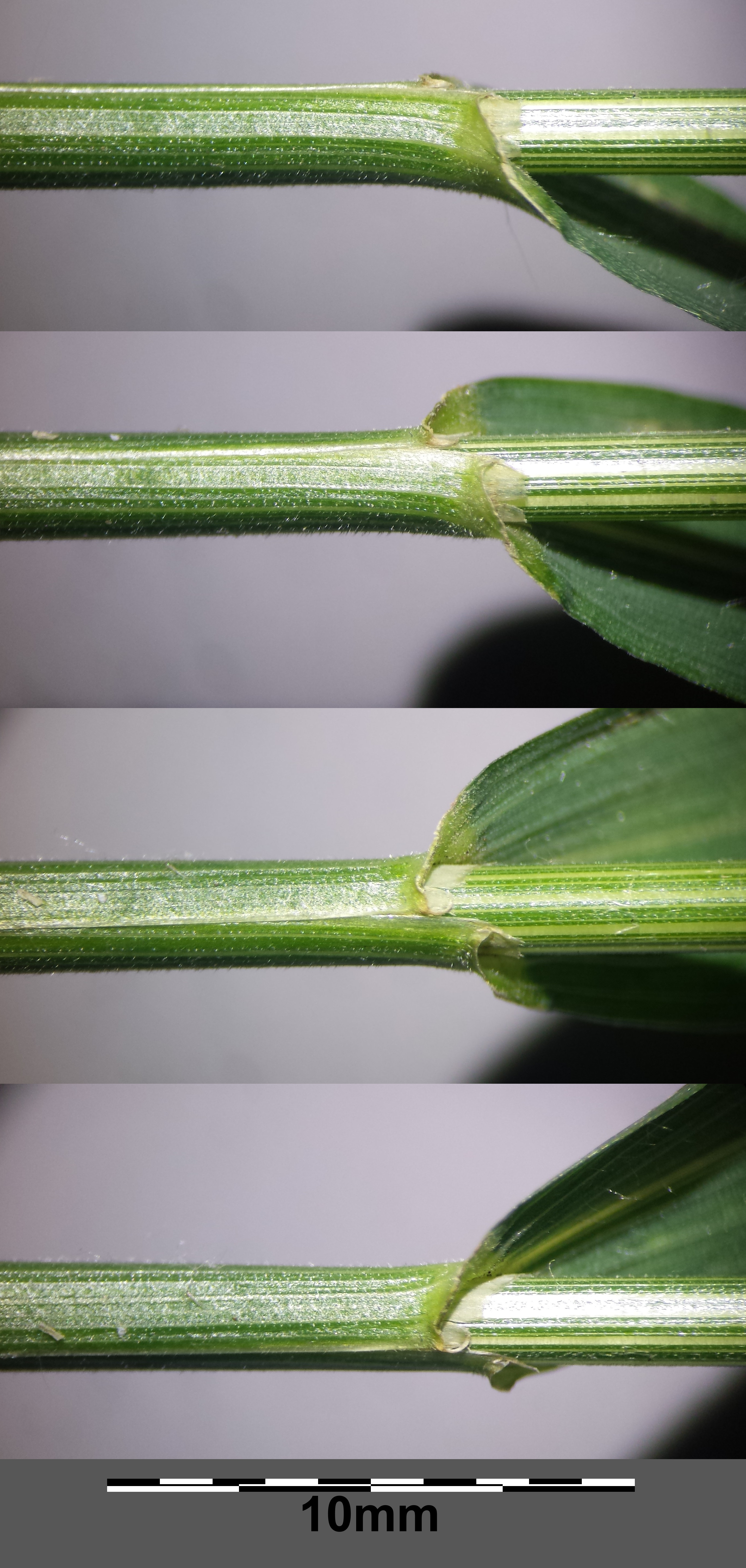 Stem with leaf sheath and ligule Taxonym: Elymus caninus ss Fischer et al. EfÖLS 2008 ISBN 978-3-85474-187-9 Location: Rohrwald, district Korneuburg, Lower Austria - ca. 280 m a.s.l. Habitat: wet wood